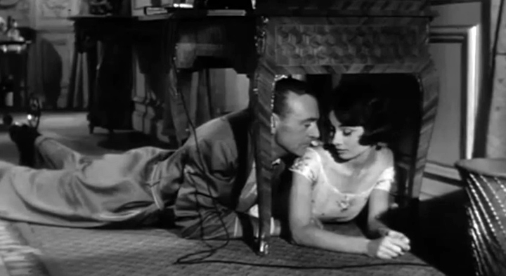 Gary Cooper and Audrey Hepburn under the table in the film trailer for Love in the Afternoon, 1957